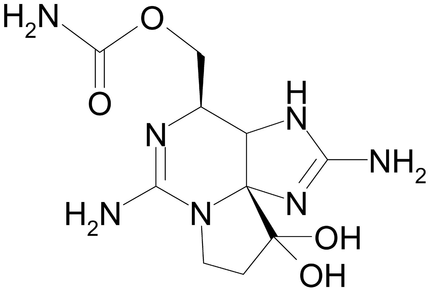 Structure of Saxitonin